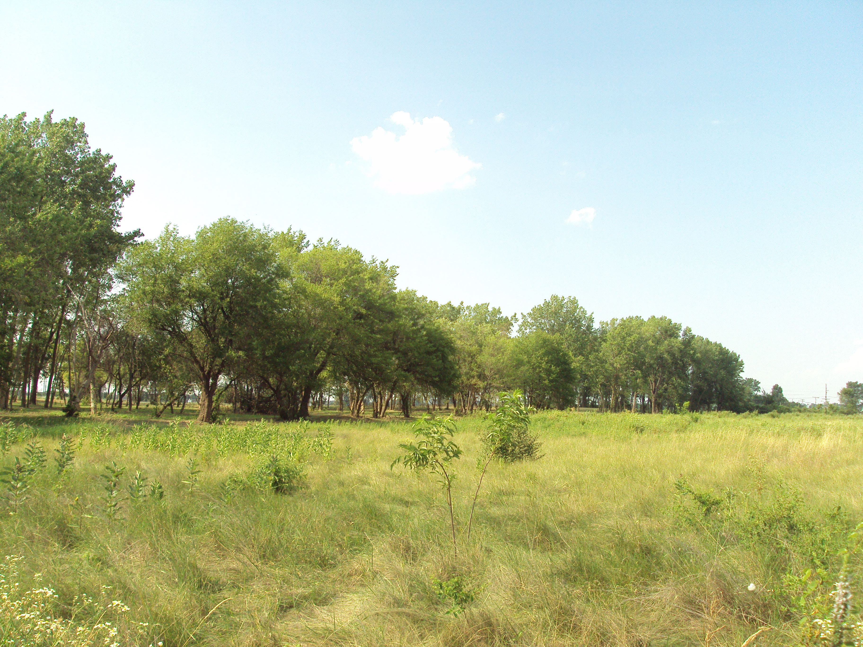 Part of the River Raisin National Battlefield Park